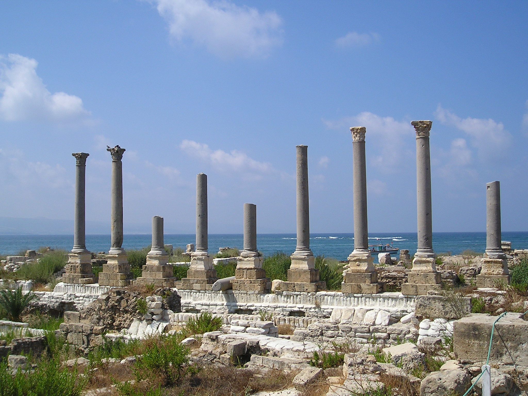 Tyre, Lebanon - columns of what is believed to be palaestra (athletes' training area) at the Al Mina excavation area